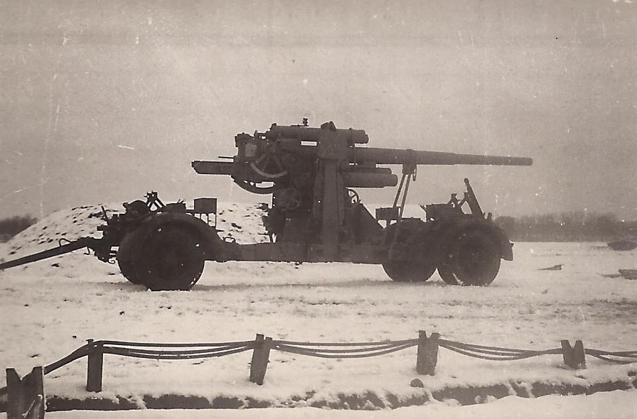 8,8cm-antiaircraft battery in Berlin-Karow, gun "Bertha" in march position (January 1944)